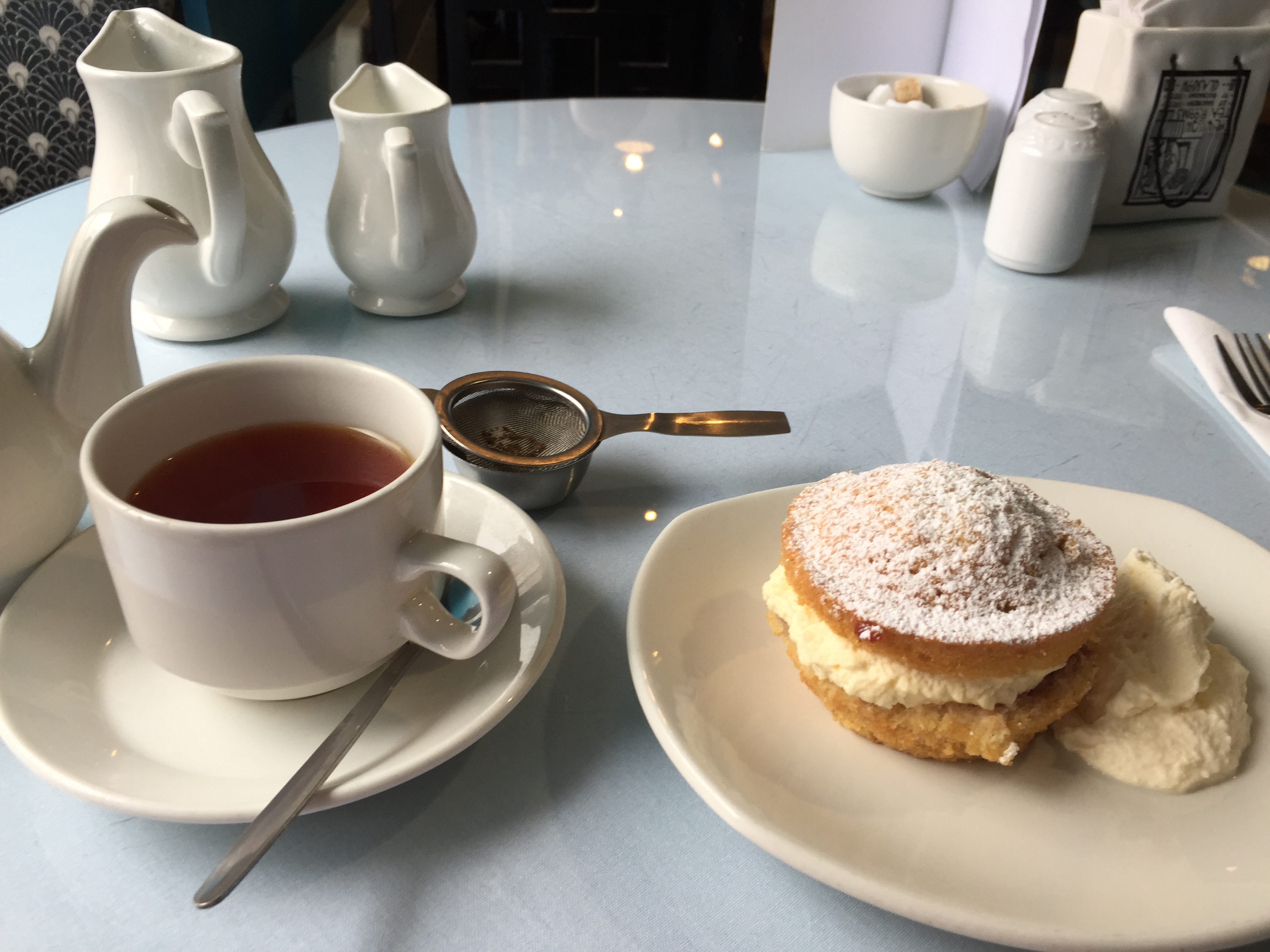 A slice of Victorian sponge and tea at Willow Tearooms